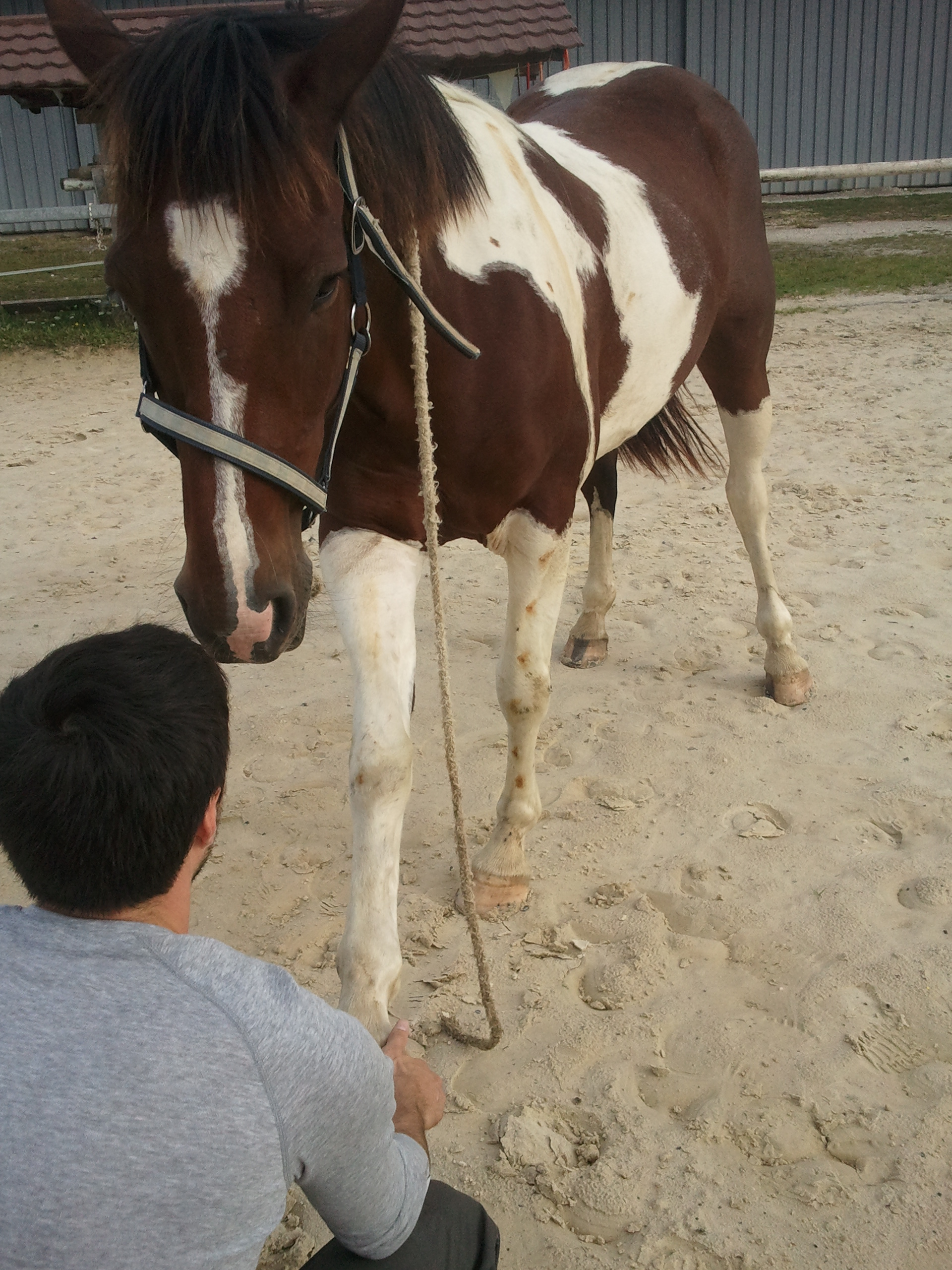 forelimb stretching for a horse